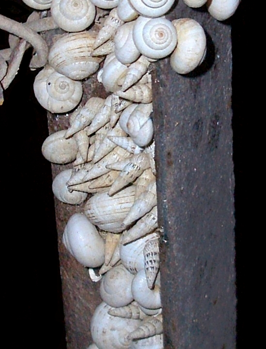 In Kadina, South Australia, two introduced species of snails (the large ones are Theba pisana and the small long pointed ones are Cochlicella acuta) aestivate at the top of fence posts.